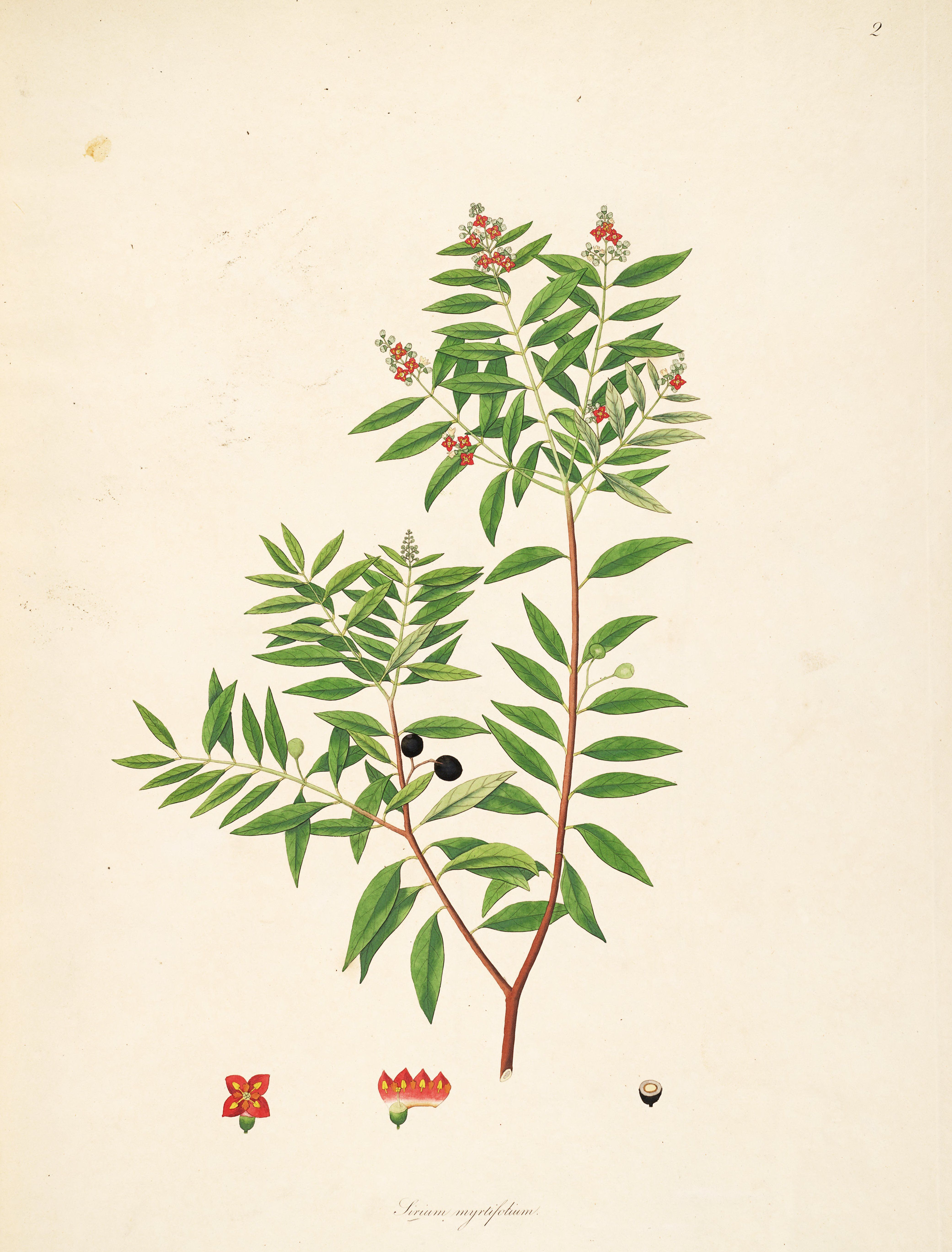 Illustration of Sirium myrtifolium (= Santalum album), Santalaceae